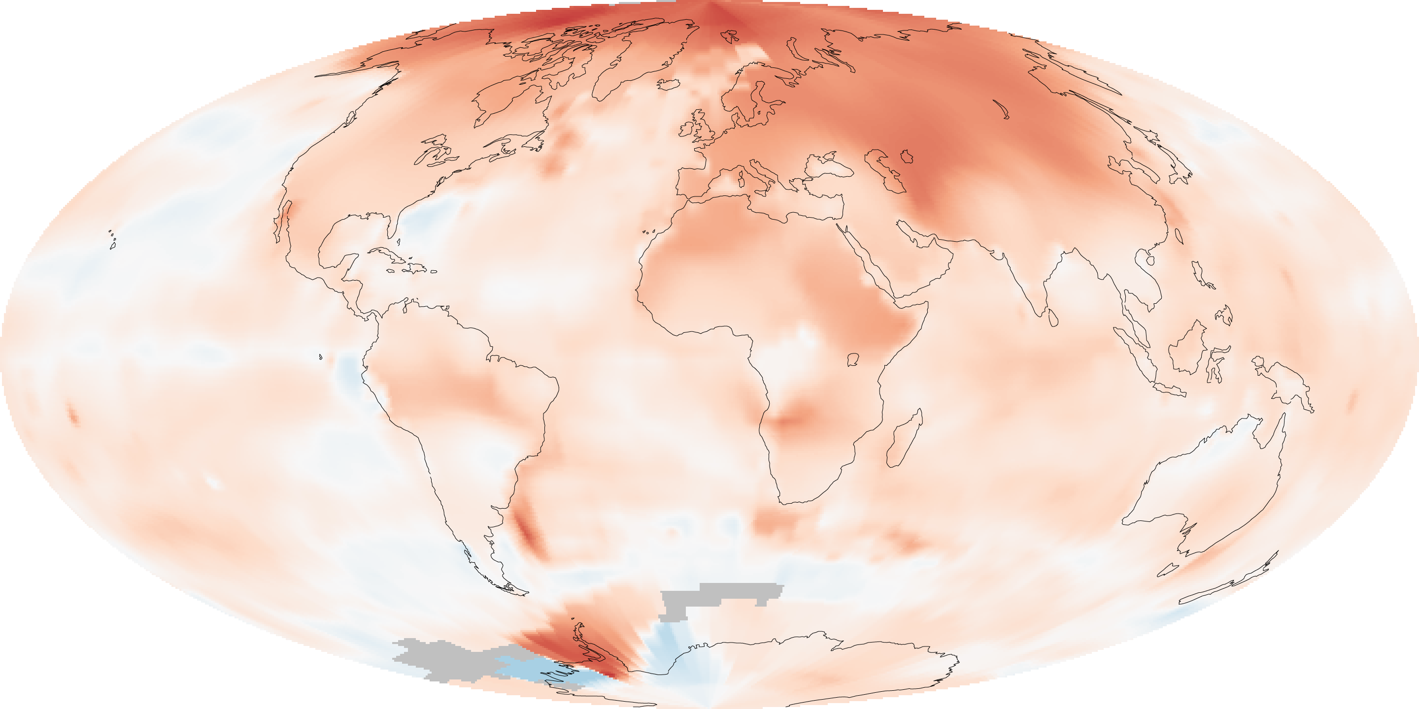 The map illustrates just how much warmer temperatures were in the decade (2000-2009) compared to average temperatures recorded between 1951 and 1980 (a common reference period for climate studies). The most extreme warming, shown in red, was in the Arctic. Very few areas saw cooler than average temperatures, shown in blue. Gray areas over parts of the Southern Ocean are places where temperatures were not recorded. The analysis, conducted by the Goddard Institute for Space Studies (GISS) in New York City, is based on temperatures recorded at meteorological (weather) stations around the world and satellite data over the oceans. For temperature palette, see GISS temperature palette.svg.